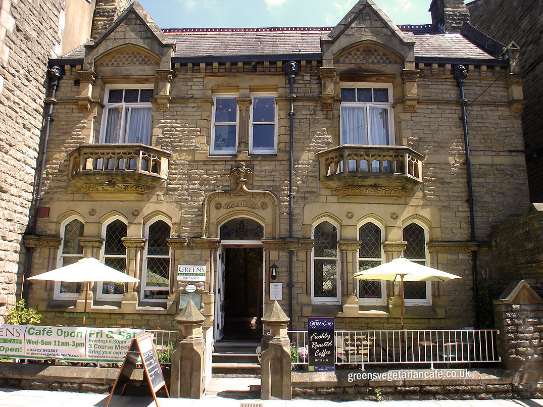 Greens Vegetarian Cafe, New Oxford House, 24 Albert Street, Hebden Bridge, West Yorkshire